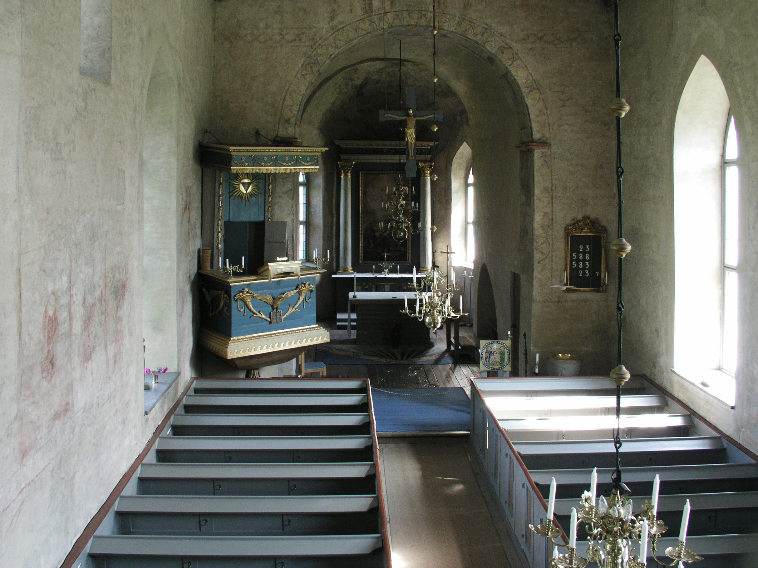 Resmo kyrka/church, Mörbylånga. Nave. The photo was taken by Håkan Svensson (Xauxa) the 2nd of August 2005.